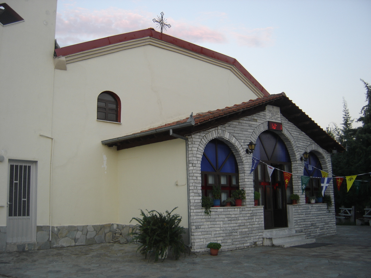 The church of Kimissi tis Theotokou in Toxo.